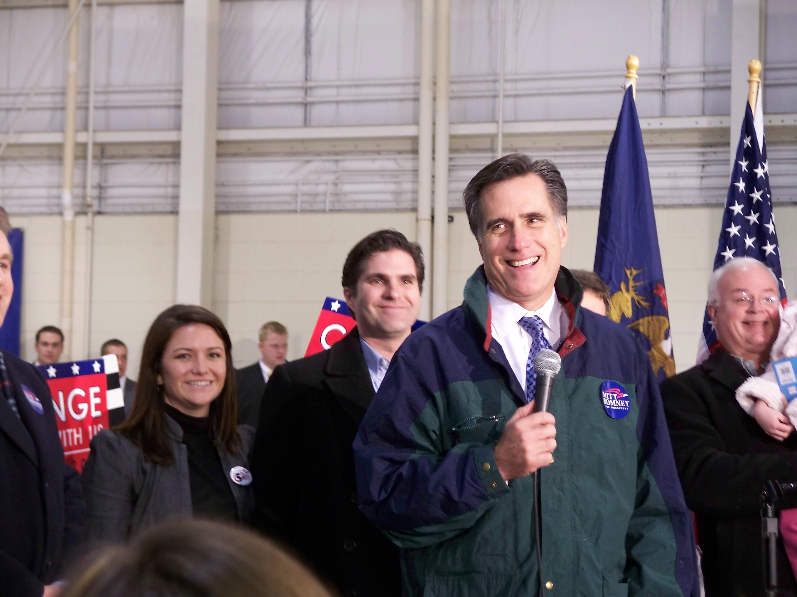 Mitt Romney at one of his presidential campaign rallies.